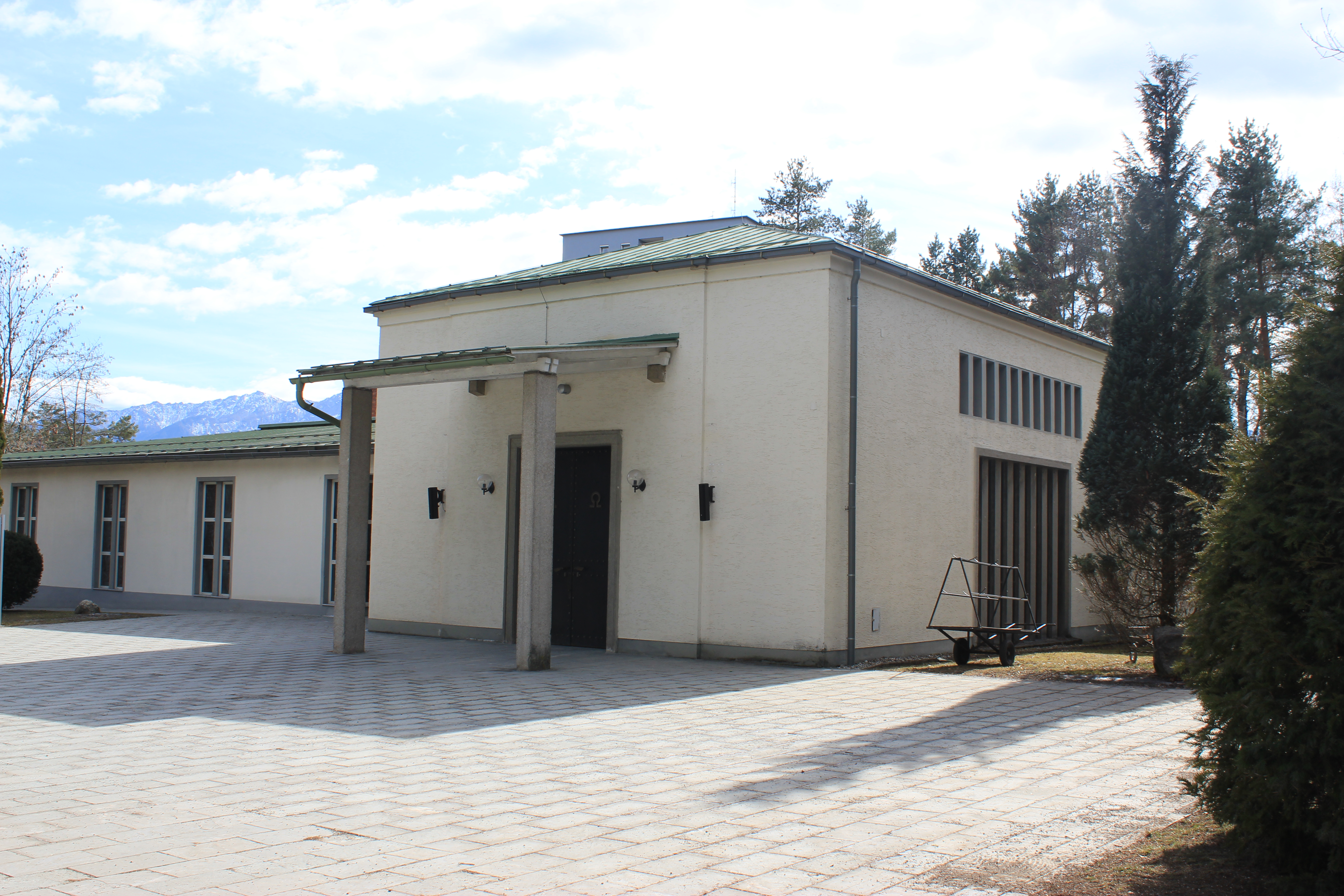 Crematorium at the cemetery in Villach